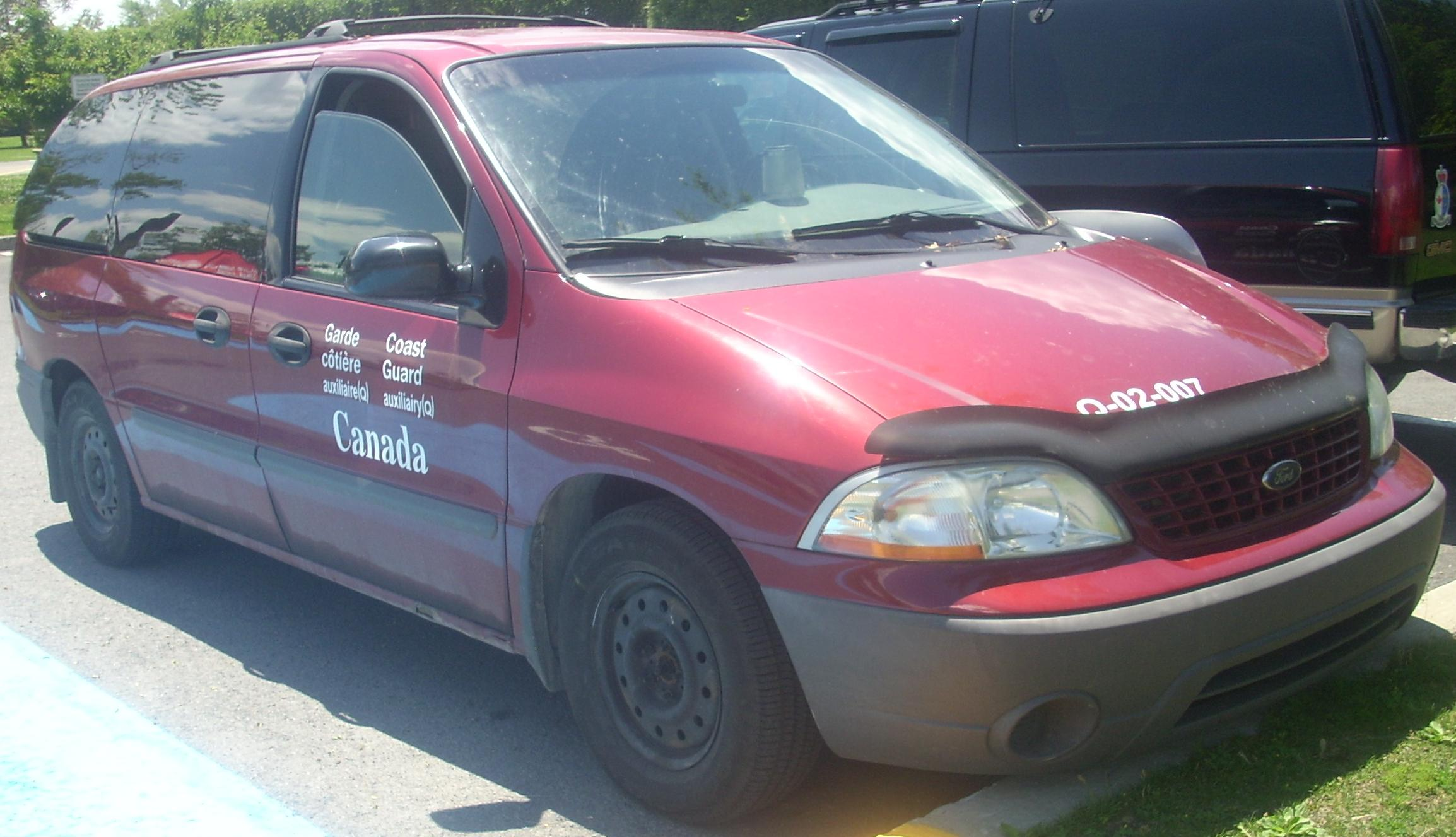 Ford Freestar photographed in Ste. Anne De Bellevue, Quebec, Canada at the 2010 Ste. Anne De Bellevue Veteran's Hospital Auto Show.